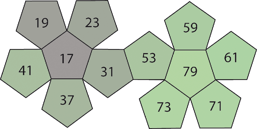 nontransitive prime-numbers-dodecahedron PD 13